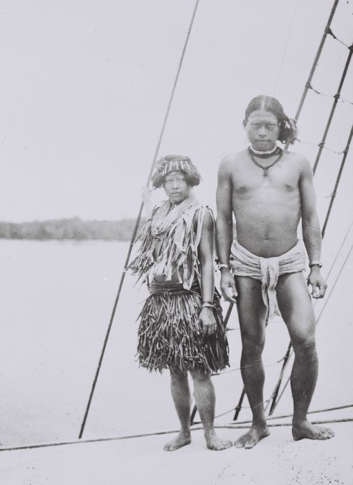 A Mentawai man and woman from the village Sioban on the island Sipora on board the ship Bellatrise